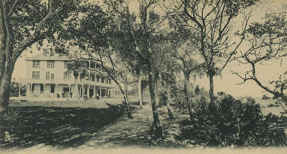 The second Hotel Carleton, Melbourne, Florida. It was built almost immediately after the first Hotel Carleton burned in 1904, but would itself burn in 1925.